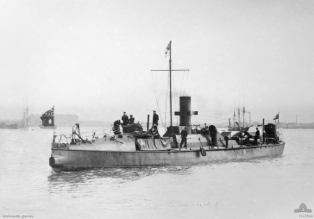 image . The Australian Navy torpedo boat HMAS Countess of Hopetoun. Prior to Federation she was the Victorian ship HMVS Countess of Hopetoun.